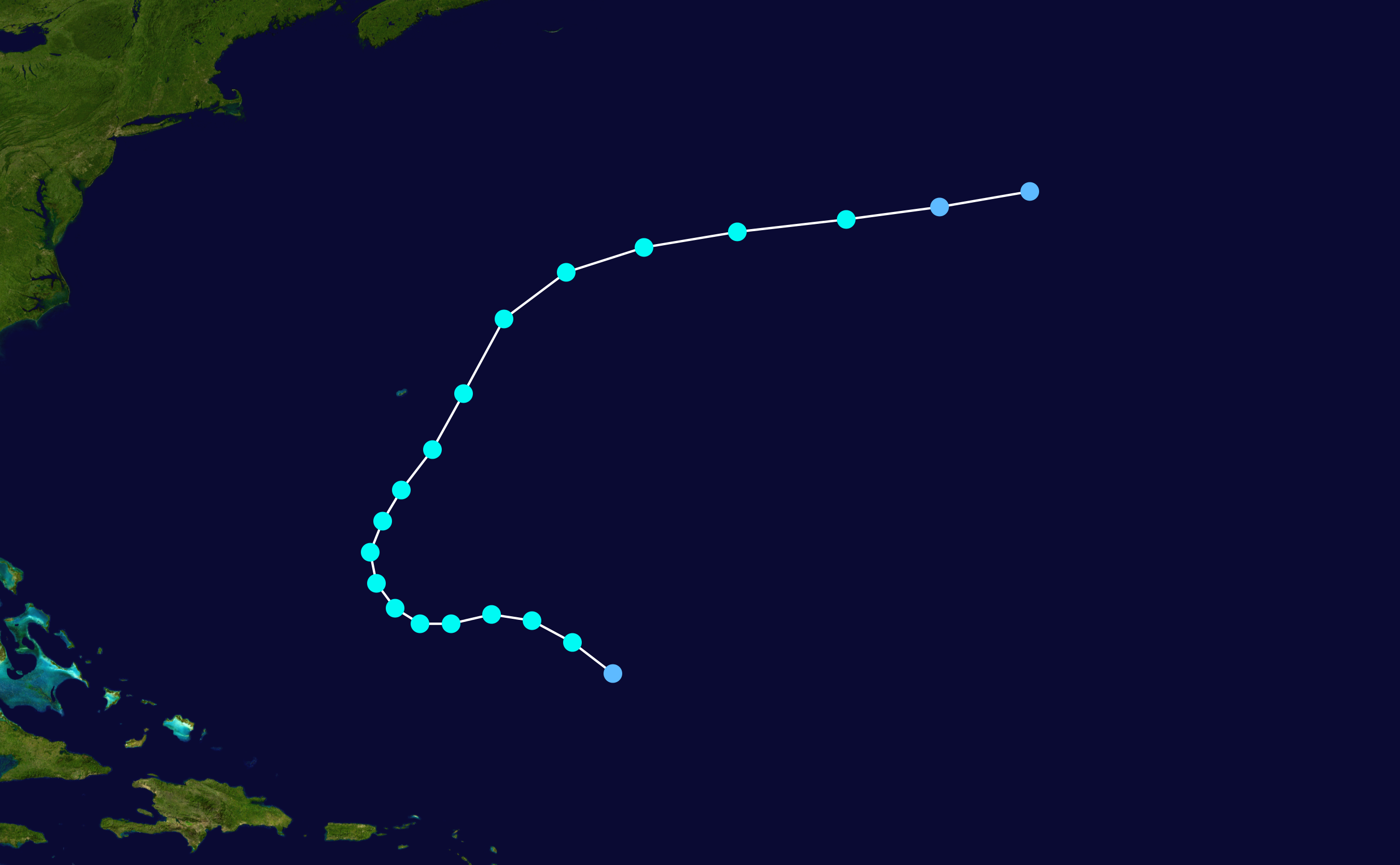 1957 Atlantic tropical storm 8 track. Uses the color scheme from the Saffir-Simpson Hurricane Scale.